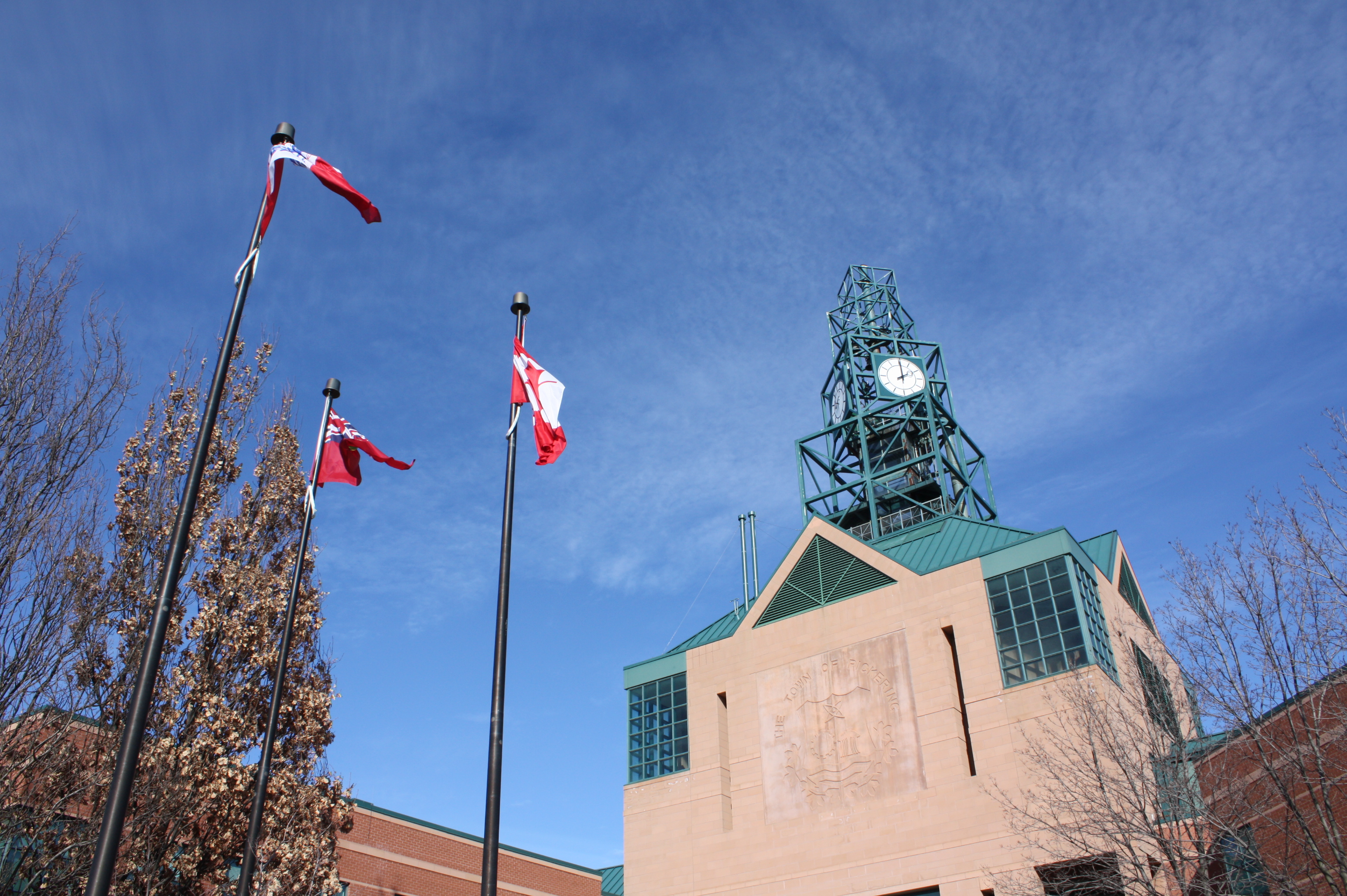 City Hall Clock and Flags at the entrance to Pickering City Hall on Glenanna Rd.